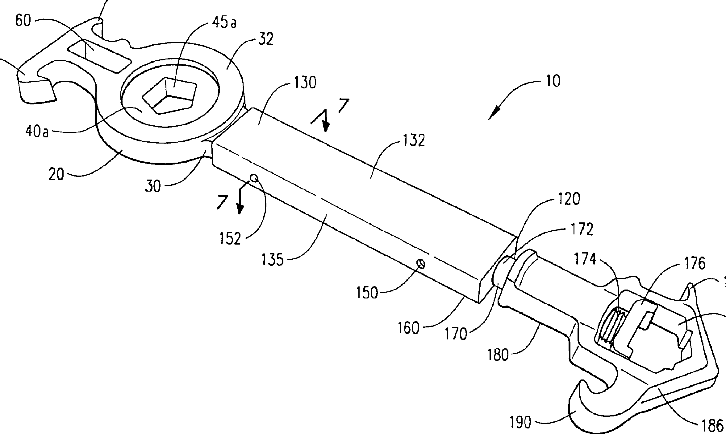 Patent drawing of a United States hydrant wrench, United States Patent No. 8,740,254.